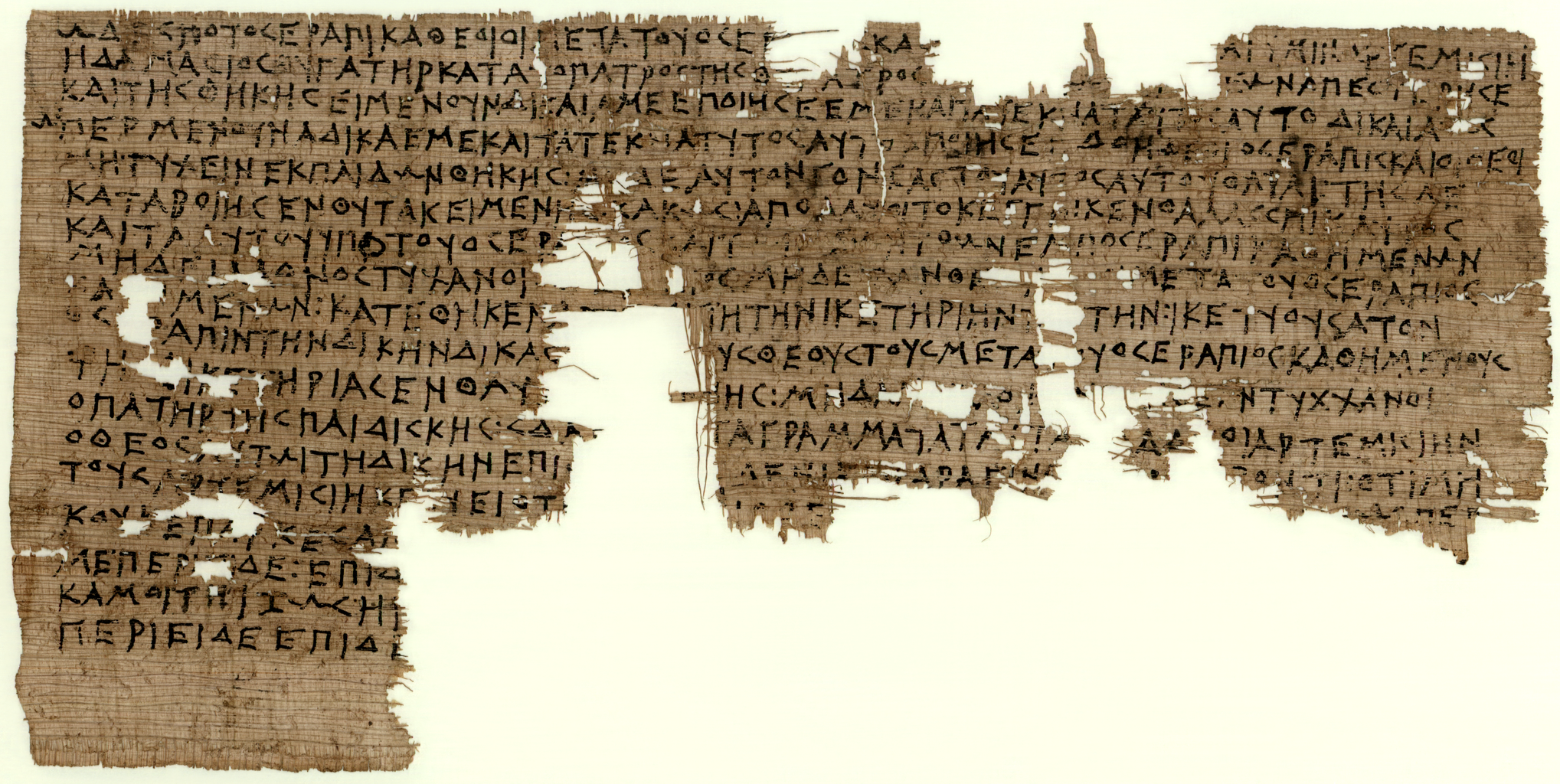 This ancient curse is one of the earliest surviving Greek documents on papyrus from Egypt. Dating from the late 4th century BC, it comes from the community of Ionian Greeks that was established at that time in Memphis, Lower Egypt. Greek culture came to dominate in Memphis, especially after 332 BC, when Alexander the Great was crowned pharaoh in the temple of the god Ptah. In the document, Artemisia, about whom almost nothing is known, appeals to the Greco-Egyptian god Oserapis to punish the father of her daughter for depriving the child of funeral rites and denying burial. Oserapis was identified with the mummified bull Apis, considered a manifestation of Ptah, and with the Egyptian god Osiris. For her vengeance, Artemisia demands that the man – whose name is not mentioned in the text – be deprived of similar funeral rites for his parents and himself. Her drastic words are a striking example for the great importance of funeral rites in Greek as well as in Egyptian tradition. The papyrus document belongs to the Papyrus Collection of the Austrian National Library, which was assembled in the 19th century by Archduke Rainer. In 1899 he gave it to Emperor Franz Joseph I, who made the collection part of the Hofbibliothek (Imperial Library) in Vienna. One of the largest such collections in the world, the Papyrus Collection (Collection Erzherzog Rainier) was inscribed on the UNESCO Memory of the World register in 2001. Blessing and cursing; Funeral rites and ceremonies; Gods, Egyptian; Gods, Greek; Memory of the World; Memphis (Extinct city)